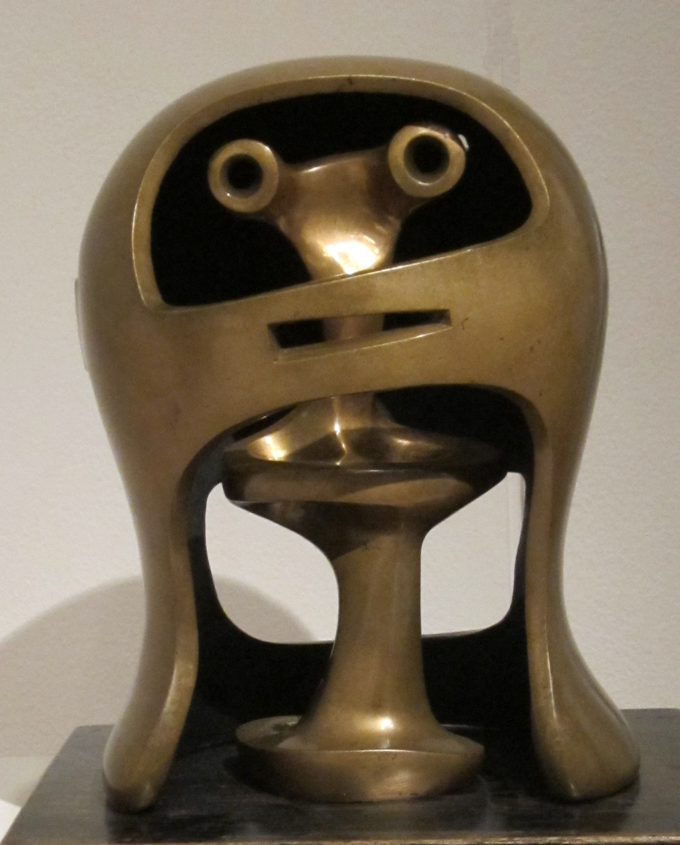 Helmet Head No. 2, bronze sculpture by Henry Moore, 1955, Art Gallery of New South Wales